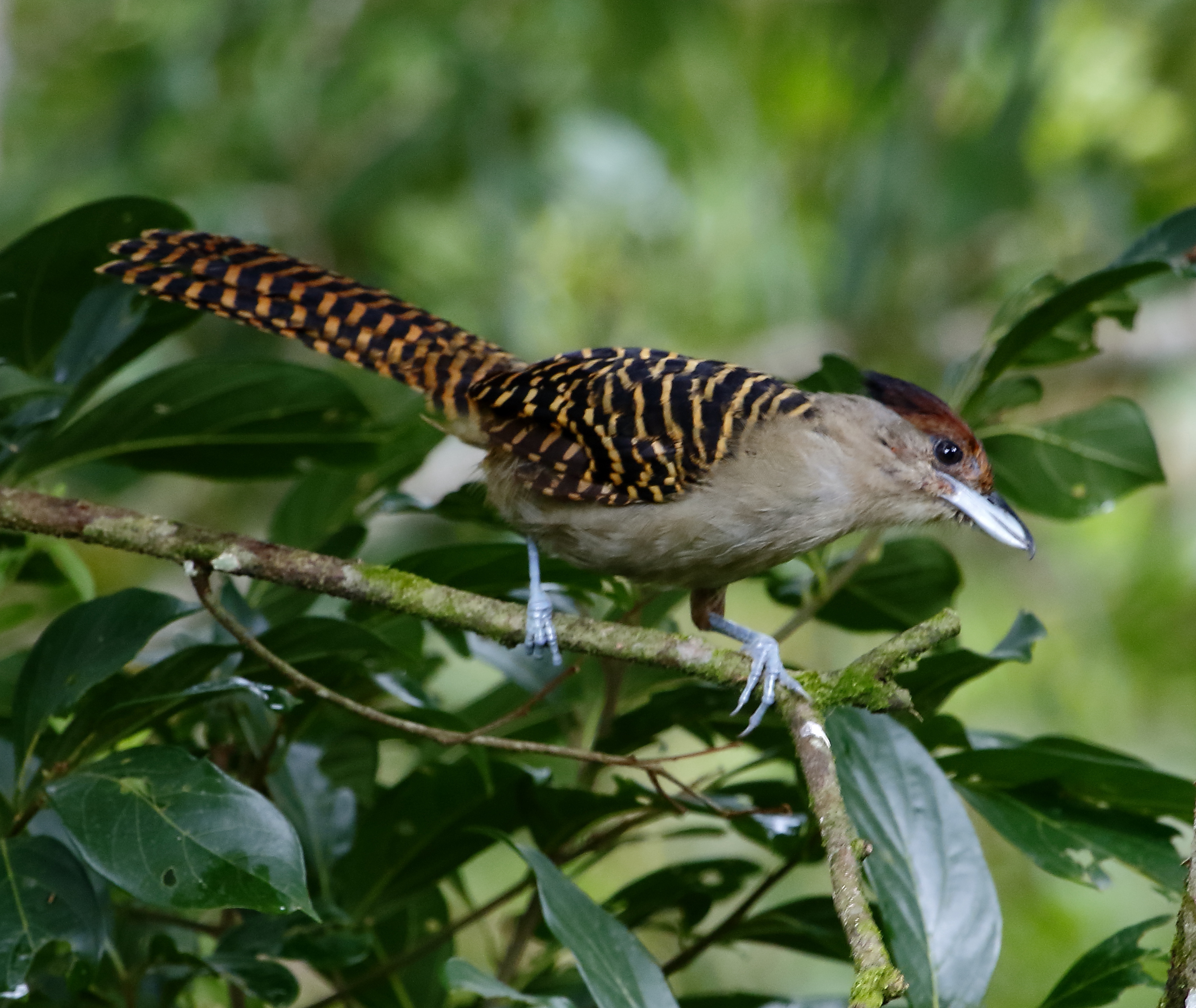 Giant antshrike (female) at Intervales State Park, SP, Brazilpot